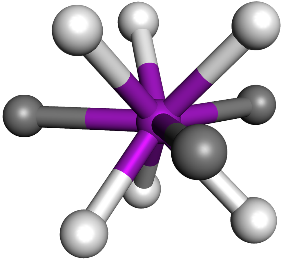 An example of trigonal prismatic, square face tricapped geometry. Modelated by Discovery Studio 3.1 Visualizer. Cleaned in Pshop